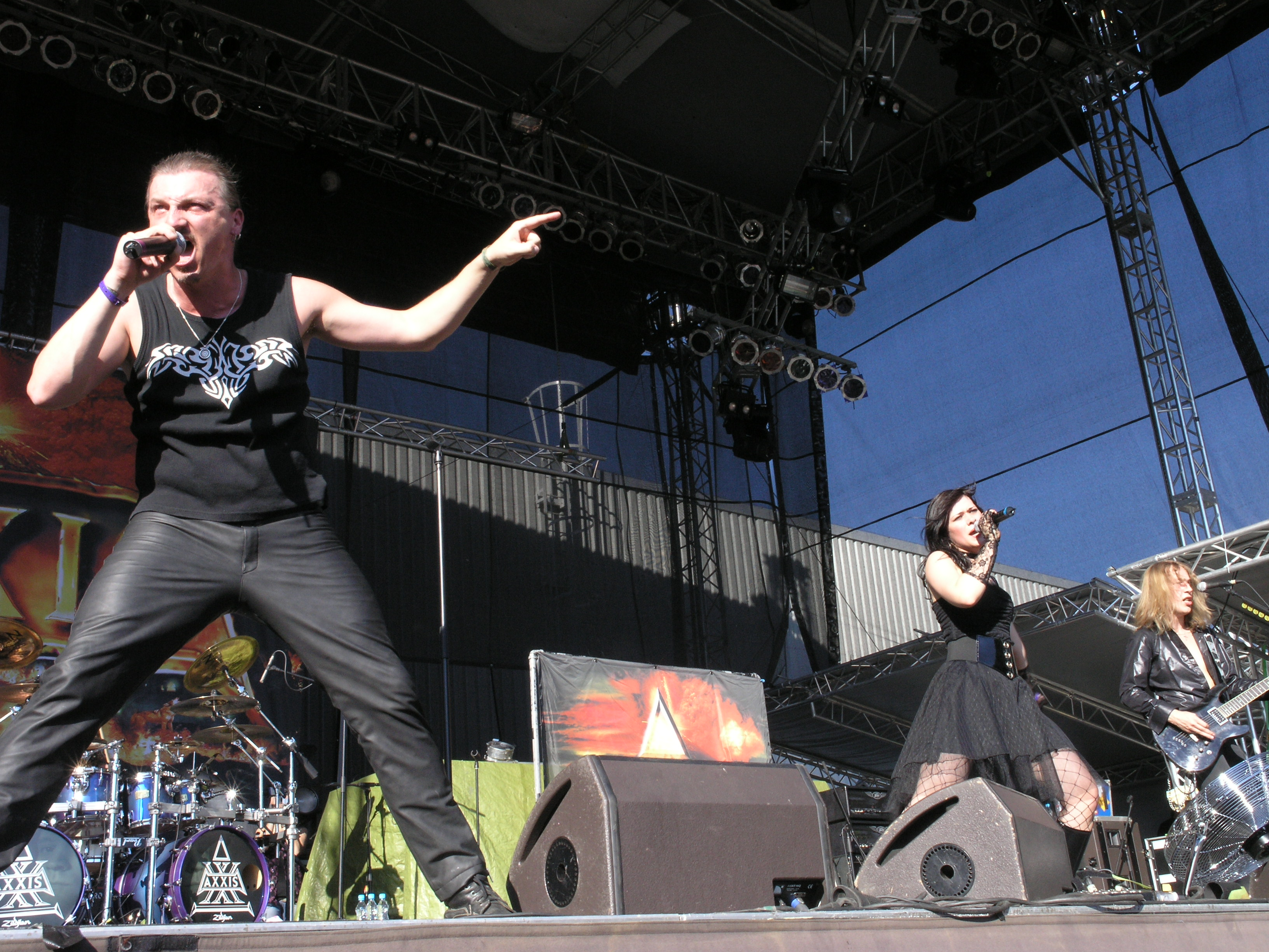 Music band Axxis during Masters of Rock 2007 festival